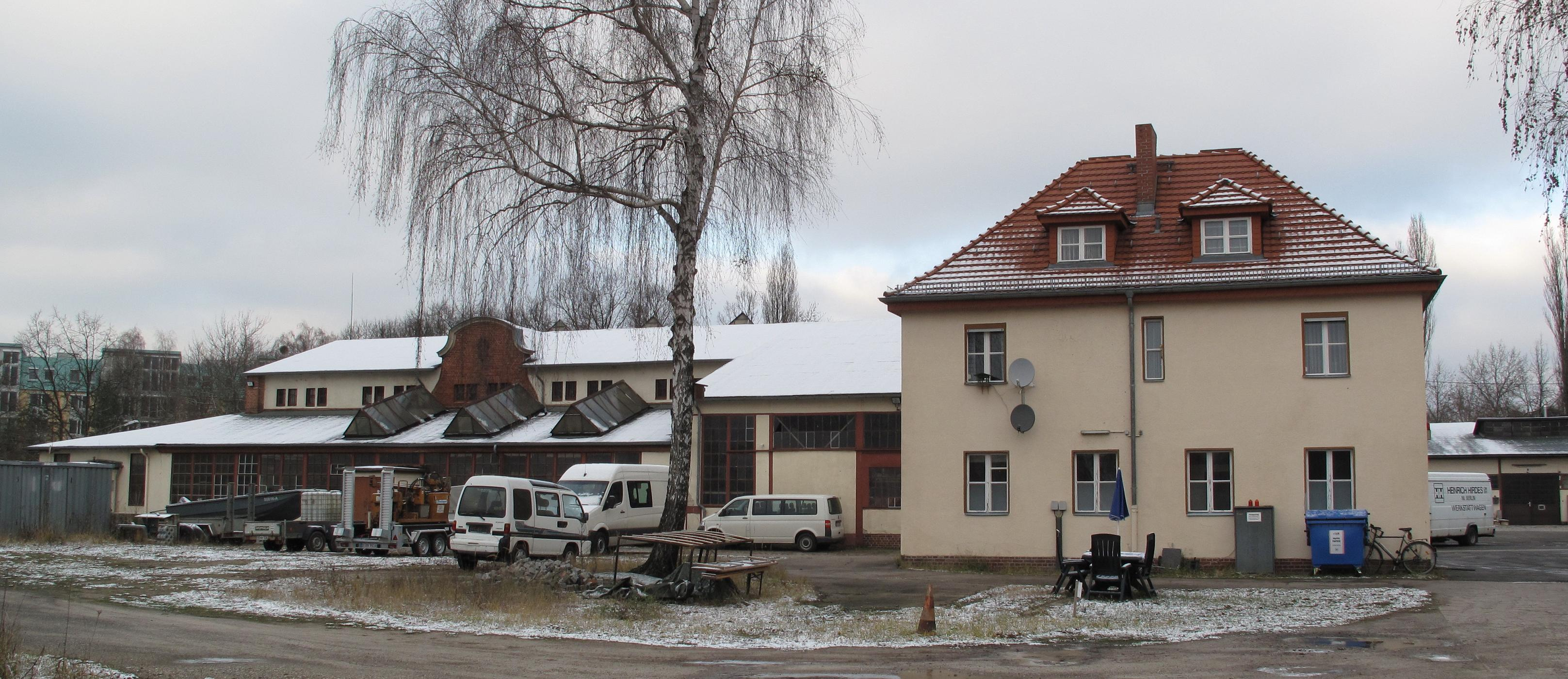 Lodge and locomotive shed, built in 1905/07, at the Teltow-Werft (shipyard). The Teltow-Werft in Berlin-Zehlendorf has emerged in 1924 from the building yard and its harbour, which were opened in 1906 especially for the maintenance of the tow-locomotives and for the supply of the Teltowkanal (canal). The shipyard was closed in 1962. The harbour and most of the buildings, mainly built according to plans by the engineering office Havestadt & Contag, are listed today – including these two buildings.